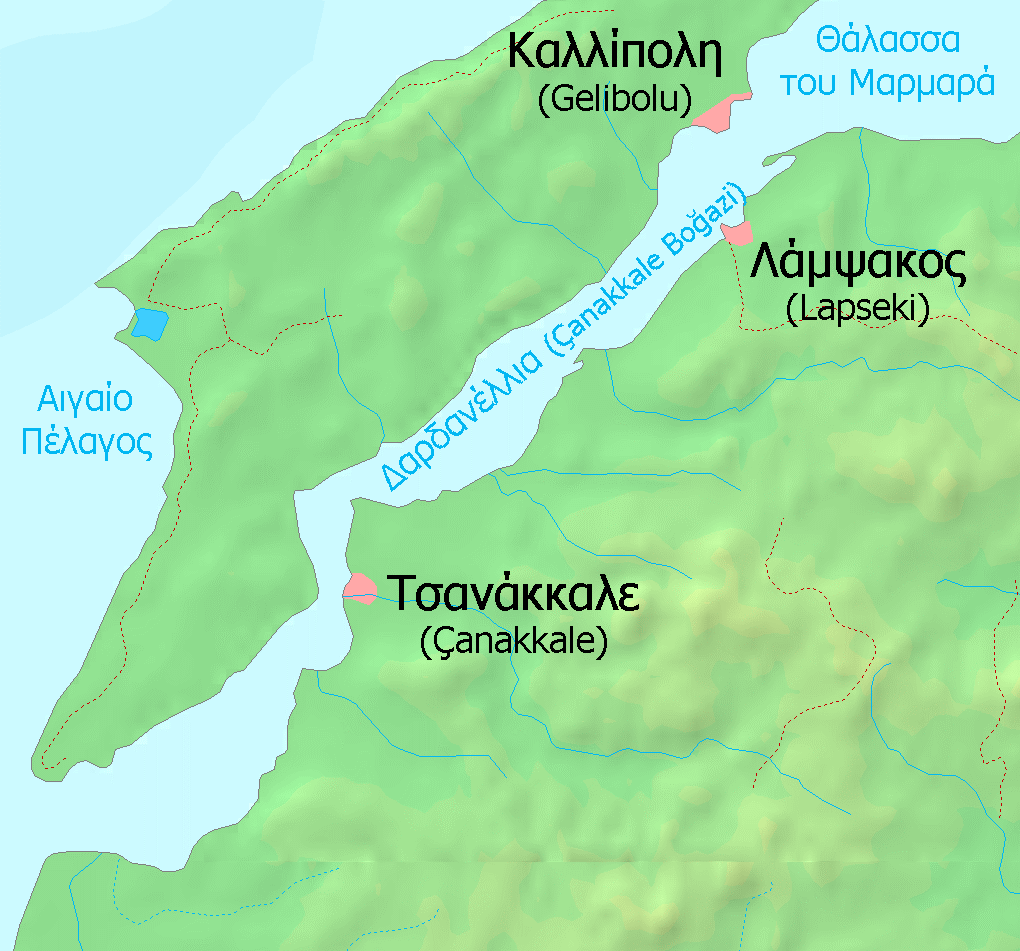 Map of the Dardanelles with greek labels